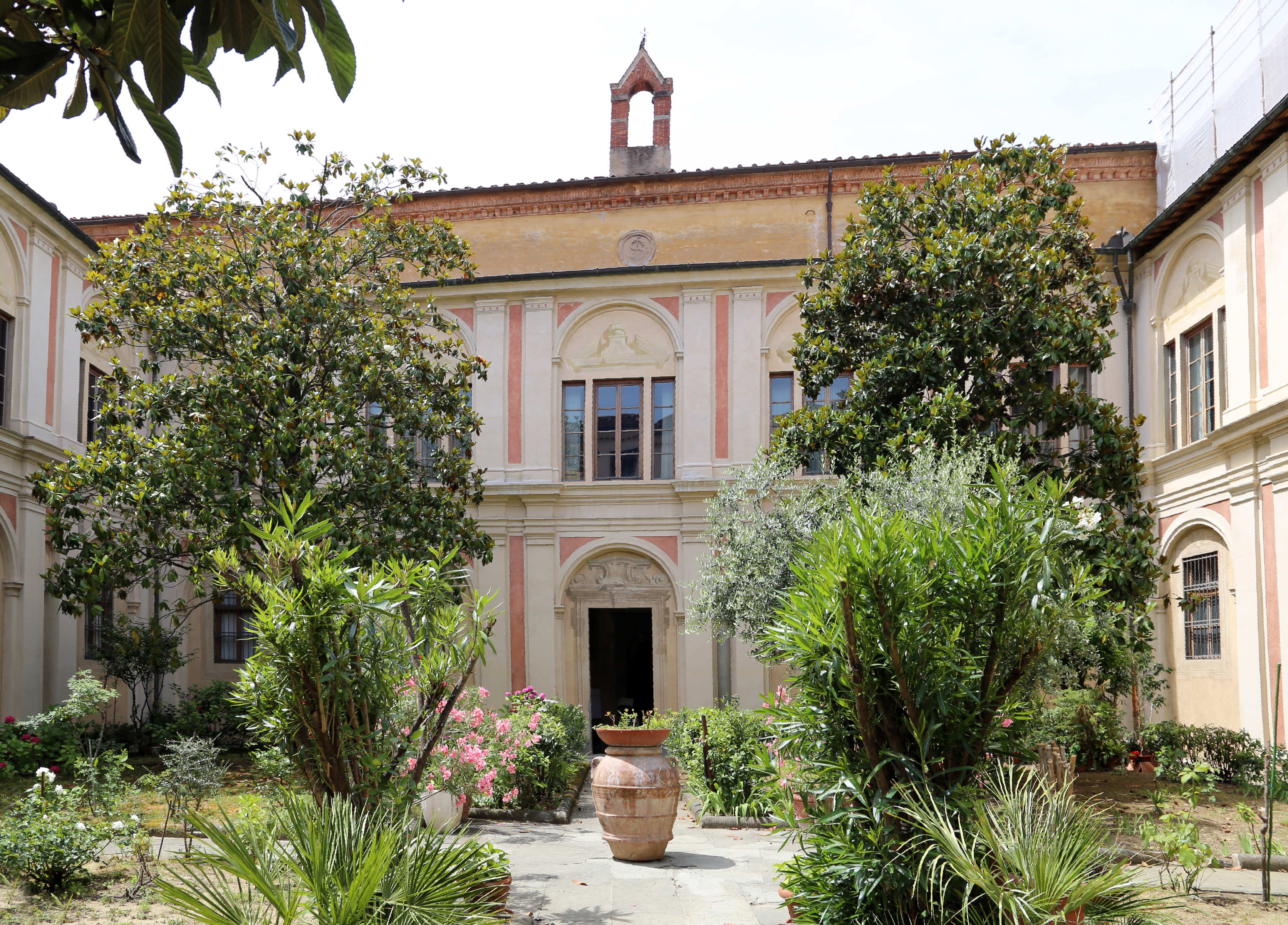 Santissima Annunziata (Florence) - Second Cloister